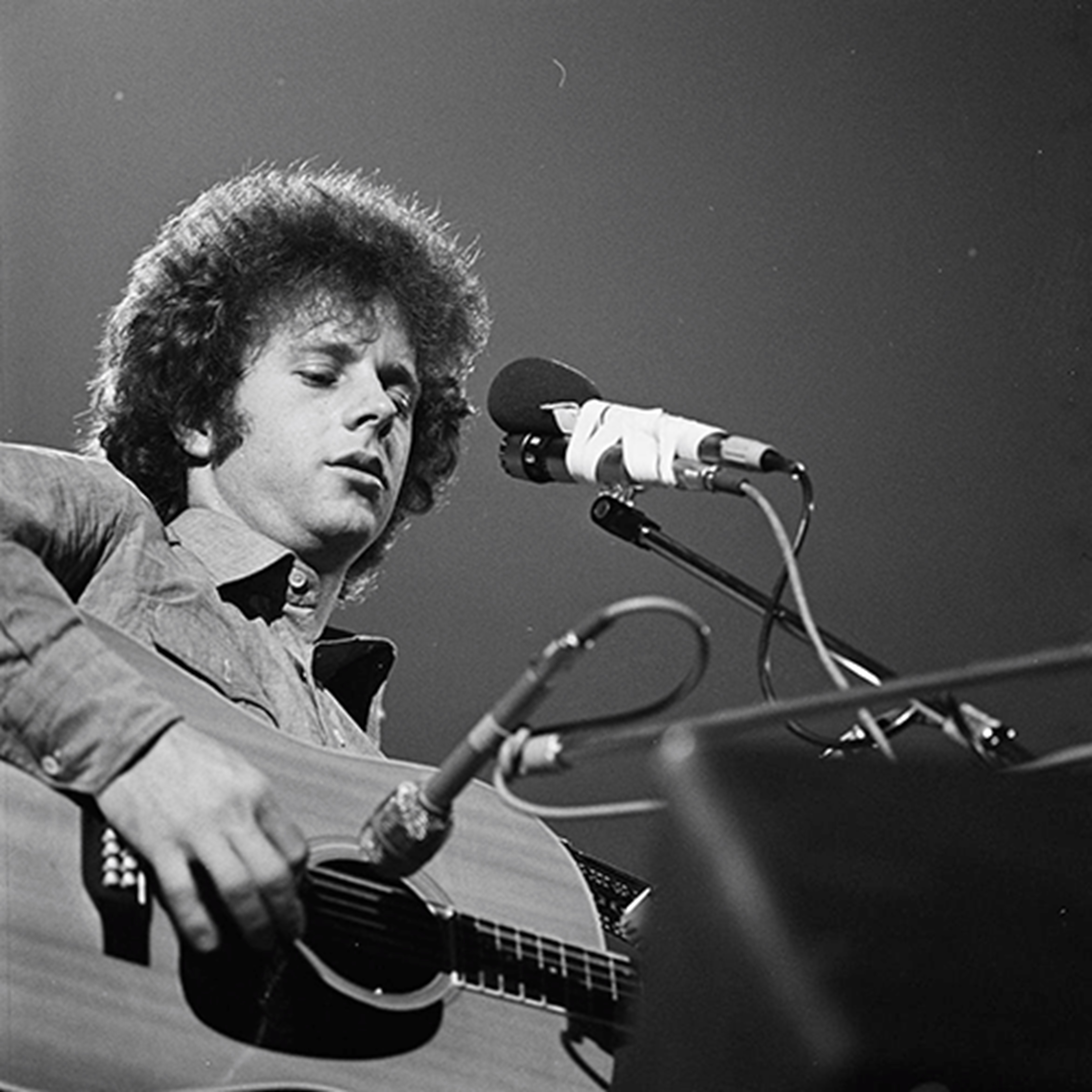 Chris Hillman (1972). Manassas, Dutch TV programme Toppop, Recordings 22 March 1972, Broadcast 10 June 1972